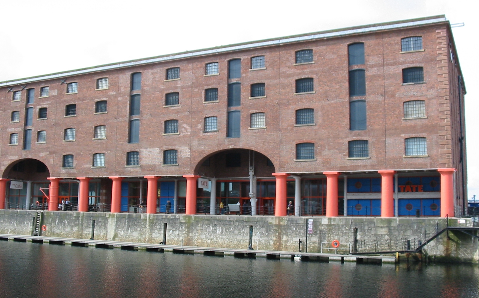 Nrf: Liverpool